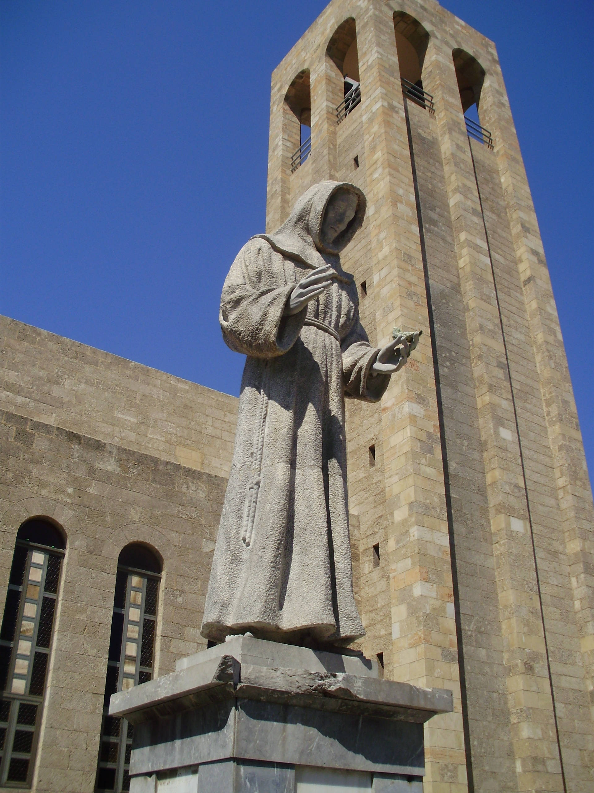 Francis of Assisi in Rhodes - San Francesco 1936 - 1939 Architect Armando Bernabiti